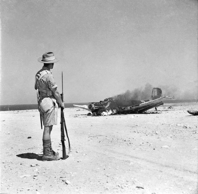 A crashed and burning German Junkers Ju 87B Stuka dive bomber near Tobruk, Libya, in 1941.